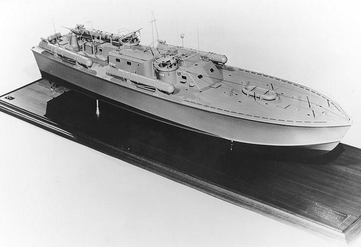 U.S. Navy official model from Navy website. [1] from [2]